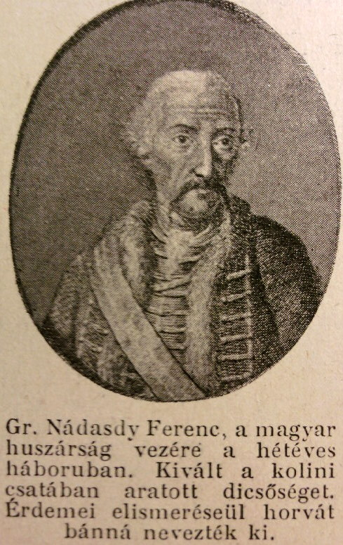 Franjo Leopold Nádasdy (1708–1783), ruler of Croatia